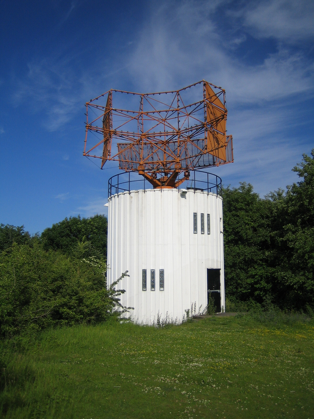 Old radar tower at Bulltofta in Malmö, Sweden.